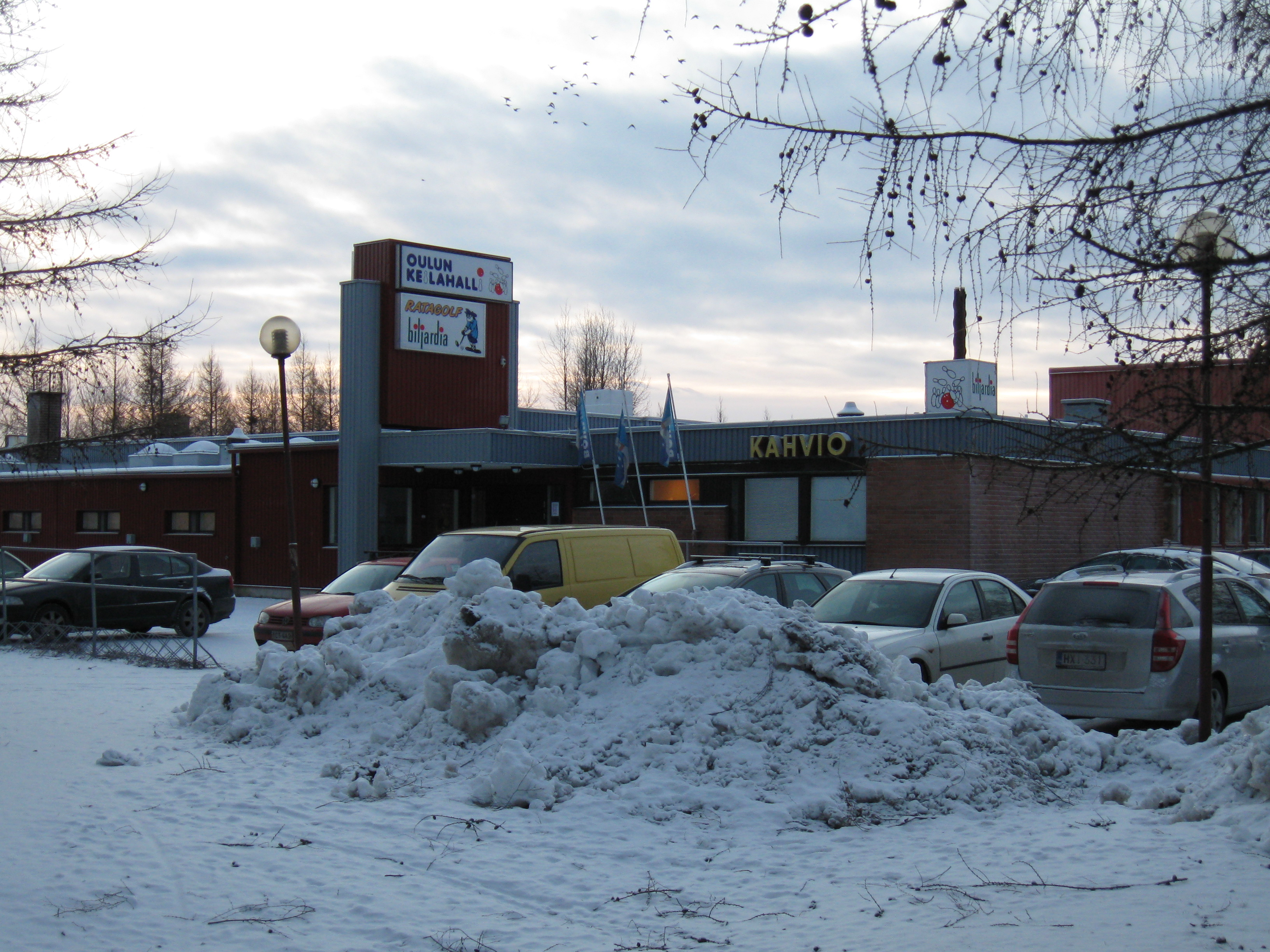 The bowling alley of Oulu, Finland.